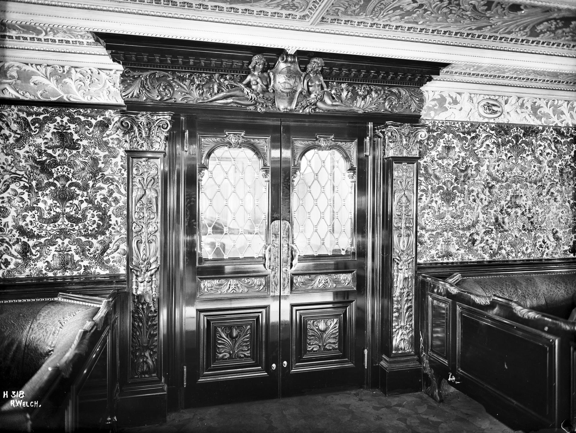 Creator: R. Welch (Photographer) Date: 1914 Original Format: Photographic Print Description: The Oceanic Ship, Smoke Room PRONI Ref: D1403_2~044~A Copying and copyright: Please For Copy Orders, contact: For fees and charges